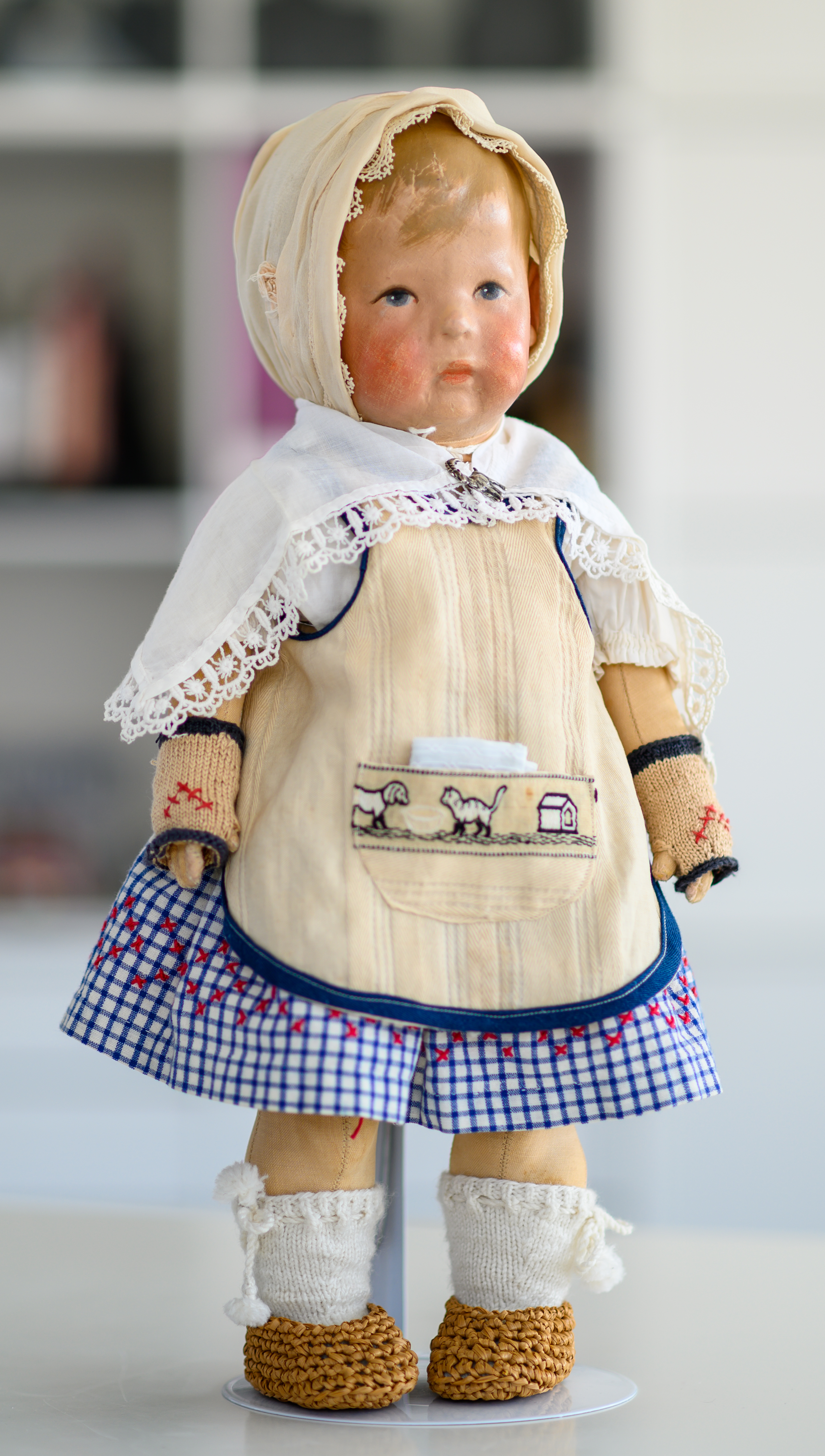 Kaethe Kruse Doll No. 1, Year 1918